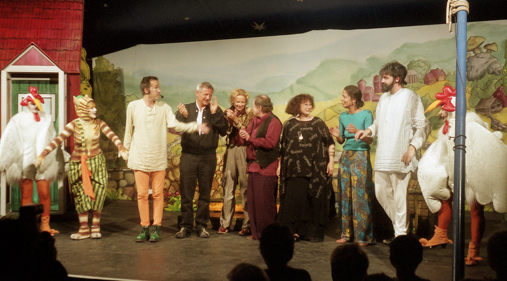 Christian Berg, Konstantin Wecker an Katja Riemann. Children Musical "Pettersson & Findus" Cuxhaven, Germany